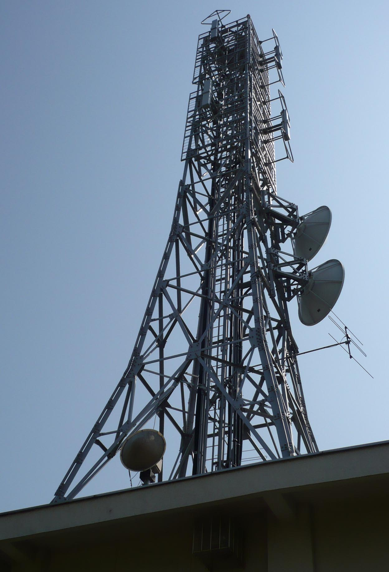 Iimoriyama FM Radio Transmitting Station (NHK-FM:88.1MHz, FM OSAKA:85.1MHz, FM802:80.2MHz ALL10kW)